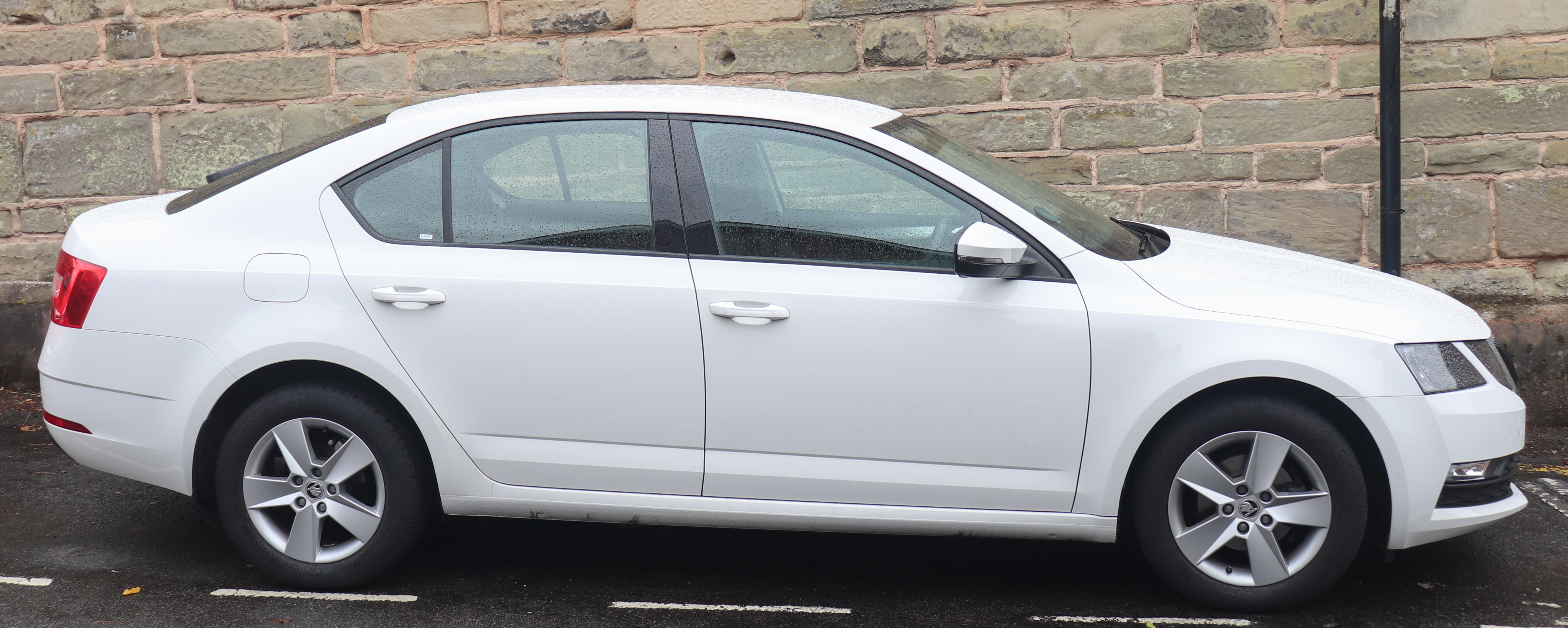 2018 Skoda Octavia SE TDi S-A 1.6 Side Taken in Warwick